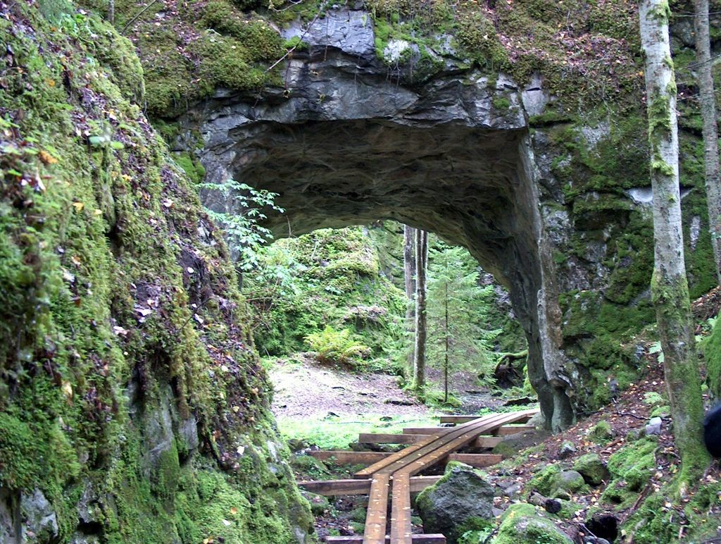 Limestone caves in Tryggeboda in Sweden